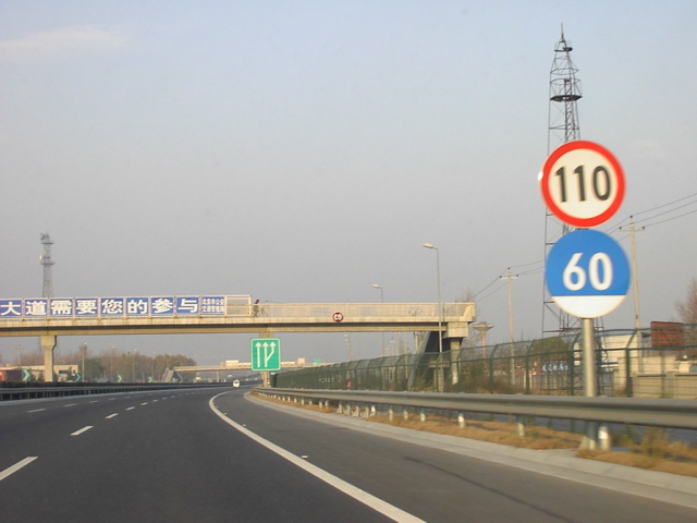 Jingkai Expressway near Huangcun